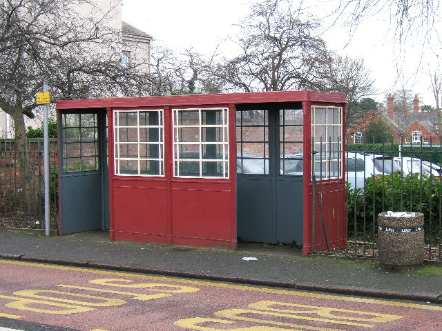 A pretty cast iron Bus Shelter One of Chester's Bus Shelters, this one is made of cast iron, with no makers mark.